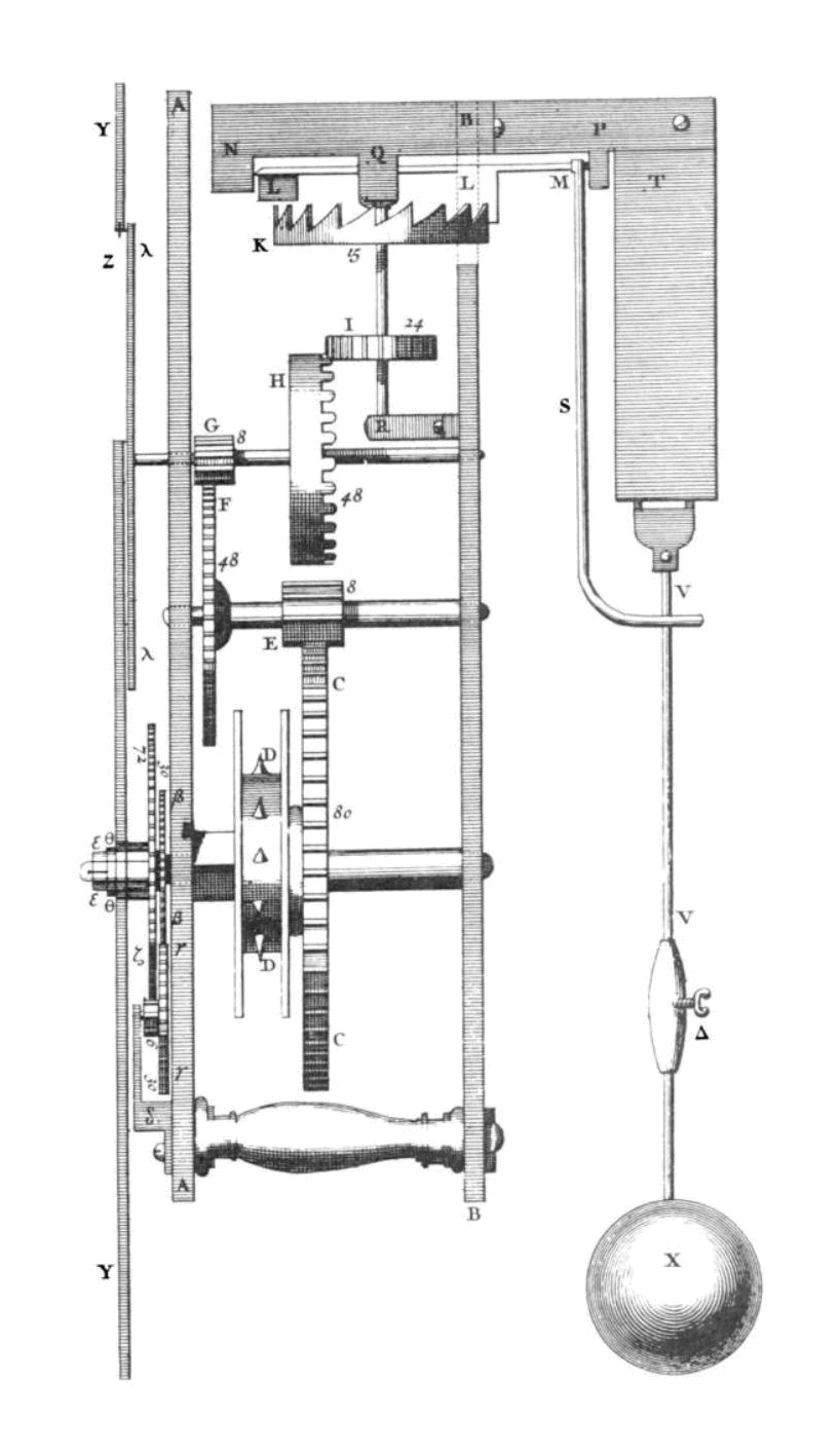 The second pendulum clock built around 1673 by Christiaan Huygens, inventor of the pendulum clock. Drawing is from his treatise Horologium Oscillatorium, published 1673, Paris, and it records improvements to the mechanism that Huygens had illustrated in the 1658 publication of his invention, titled Horologium. It is a weight driven clock (the weight chain is removed) with a verge escapement (K,L), with the 1 second pendulum (X) suspended on a cord (V). The large metal plate (T) in front of the pendulum cord is the first illustration of Huygens' 'cycloidal cheeks', an attempt to improve accuracy by forcing the pendulum to follow a cycloidal path, making its swing isochronous. Huygens claimed it achieved an accuracy of 10 seconds per day. Each gear is labeled with the number of teeth it has. Alterations to image: Cropped out figure number, converted to 32 color PNG. Labeled parts: (A) front plate, (B) back plate, (C) minute wheel, (D) weight chain pulley, (E) third wheel pinion, (F) third wheel, (G) third (seconds) wheel, (H) contrate wheel, (I) crown wheel pinion, (K) crown wheel, (L) pallets, (M) verge, (N,P) verge supports, (Q,R) crown wheel shaft supports, (S) crutch, (T) cycloidal cheeks, (V) pendulum rod, suspended from two cords hidden behind cycloidal cheeks, (X) pendulum bob, (Y) hour hand, (Z,λ) second hand (ζ) hour wheel (Δ) rate adjustment weight.